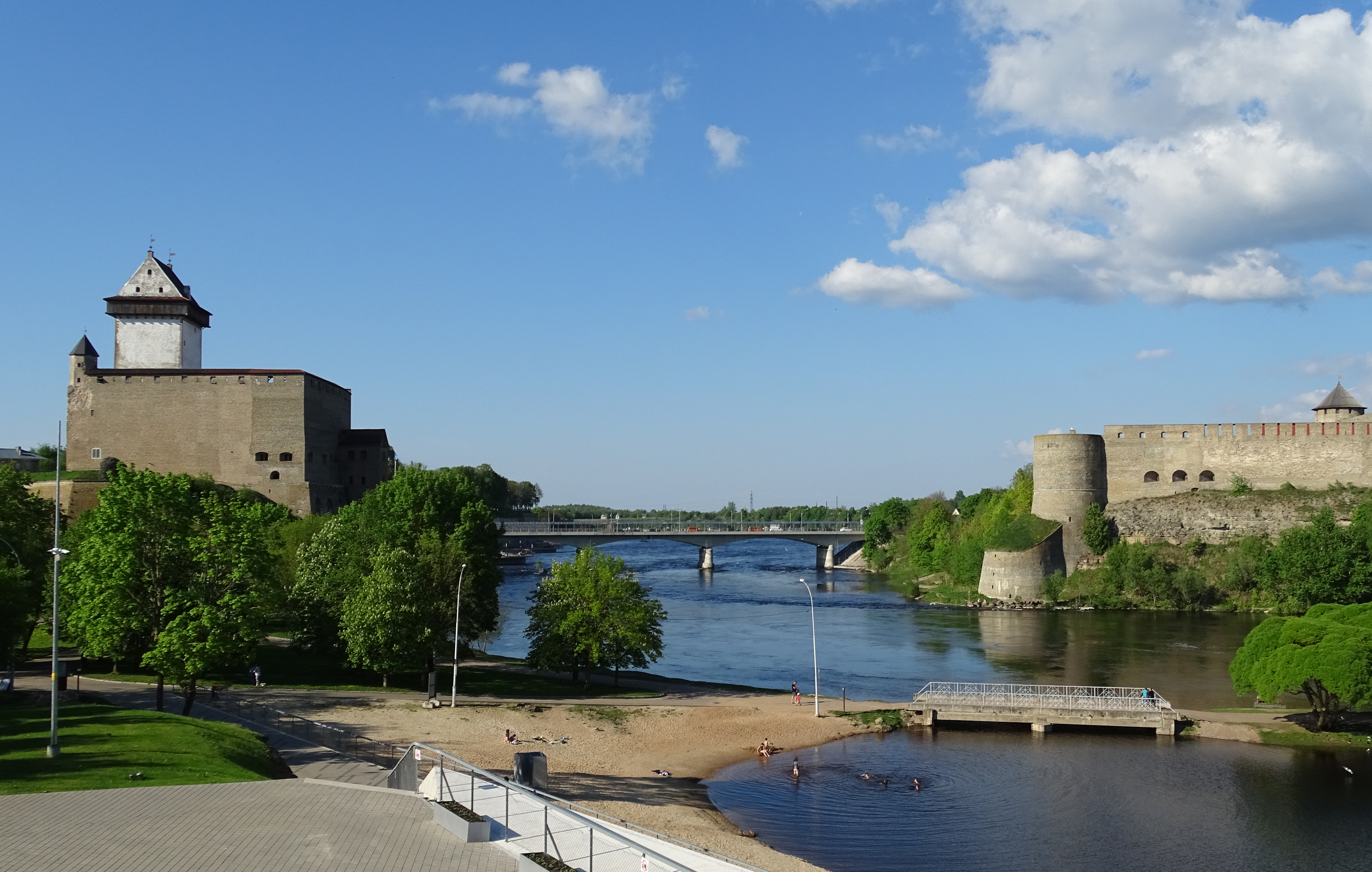 Hermann Castle (also Hermannsfeste, Herman Castle, Narva Castle, and Narva fortress, Estonian: Hermanni linnus), a castle in Narva, eastern Estonia and Ivangorod Fortress (Russian: Ивангородская крепость, Estonian: Jaanilinna linnus, Votic: Jaanilidna) is a medieval castle in Ivangorod, Leningrad Oblast, Russia.